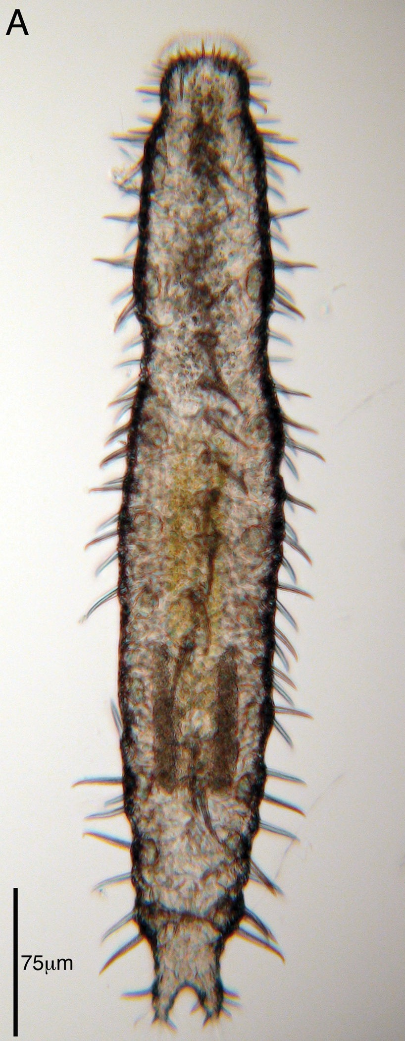 Acanthodasys caribbeanensis from Carrie Bow Cay, Belize. Dorsal view, transmitted light.